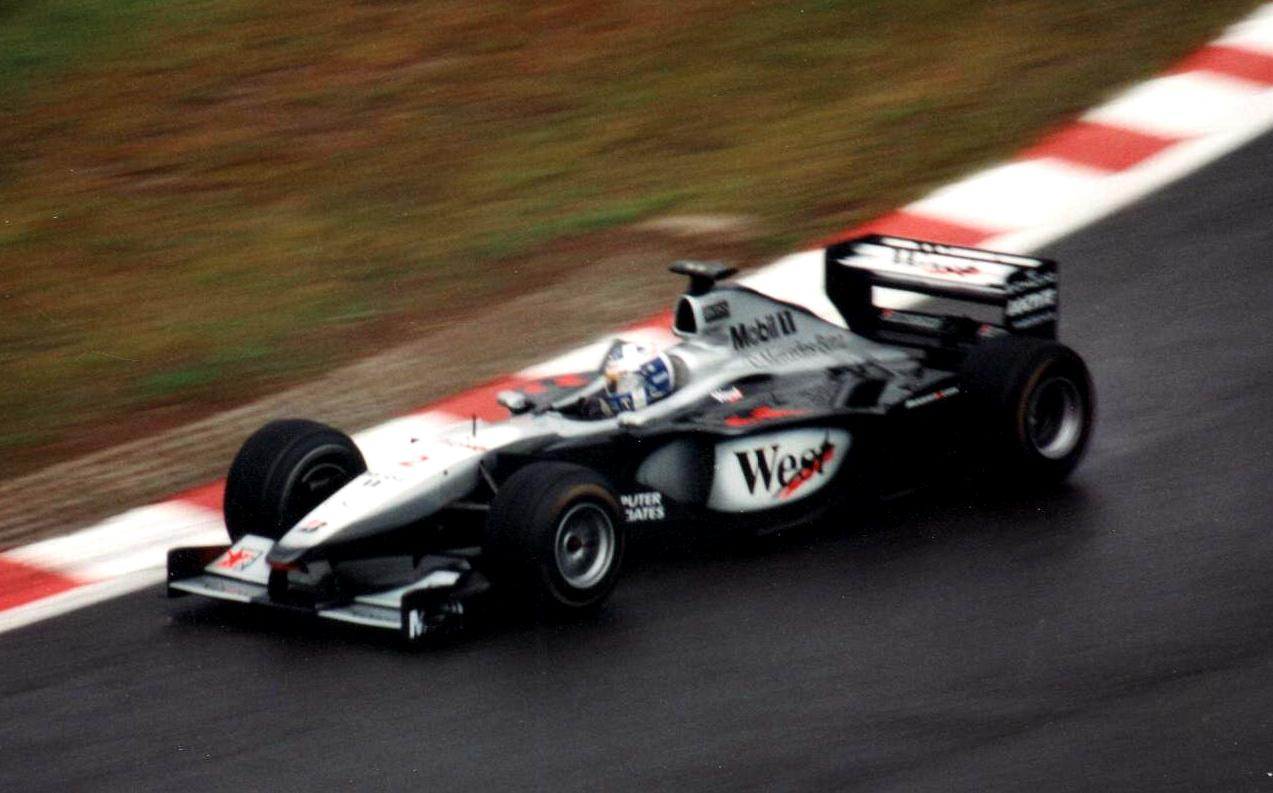 David Coulthard (McLaren) at the 2000 Belgian Grand Prix